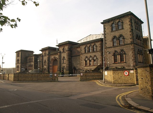 Wandsworth Prison. Another view of 1030497, with the block facing Heathfield Road.